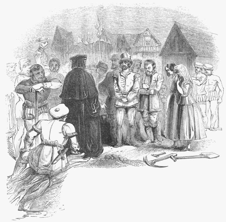 Unknown artist's impression of "The Thirteen Martyrs of Stratford-le-Bow" from an 1844 edition of "Fox's Book of Martyrs: The Acts and Monuments of the Church"